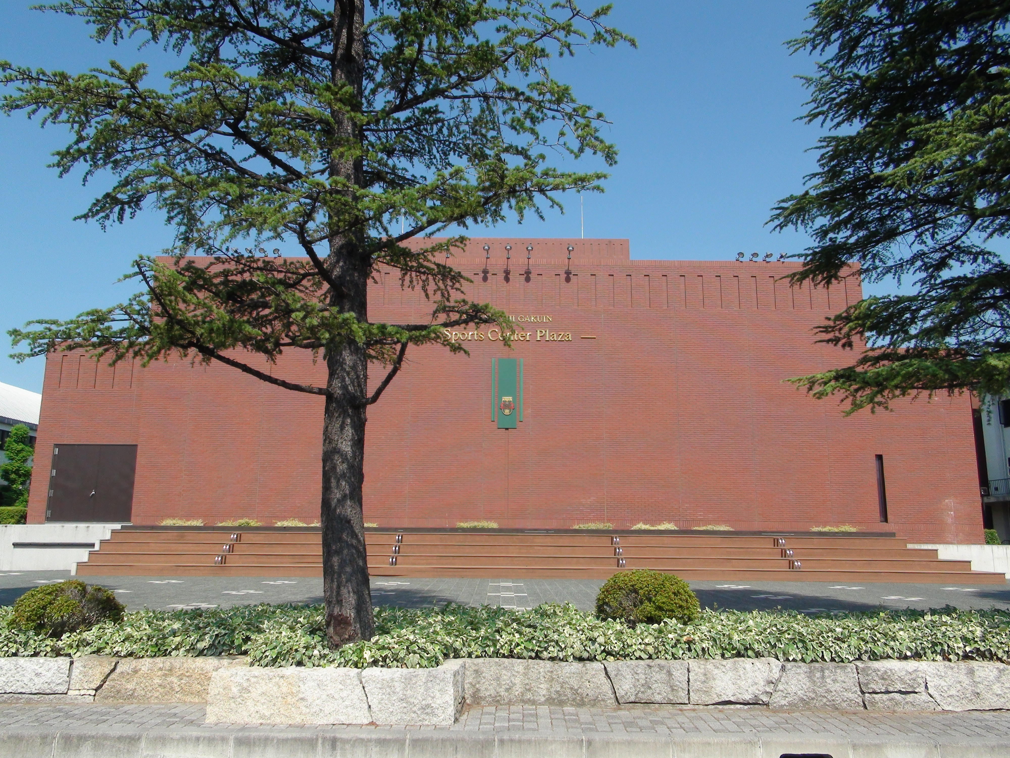 Yamanashi Gakuin University Sports Center Plaza